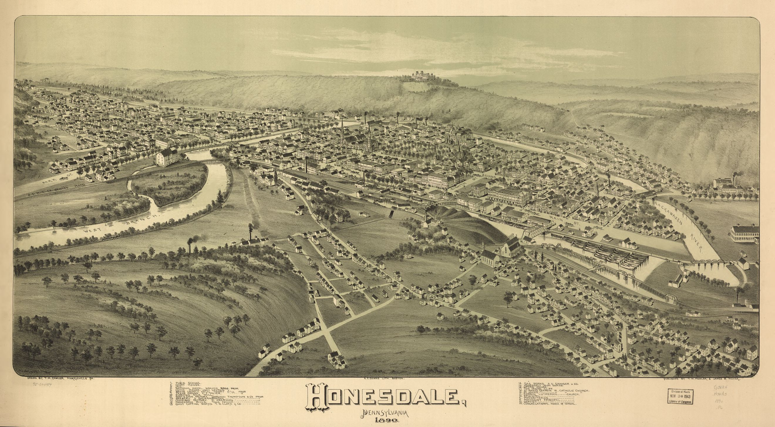 Map of Honesdale, Pennsylvania by Thaddeus Mortimer Fowler.